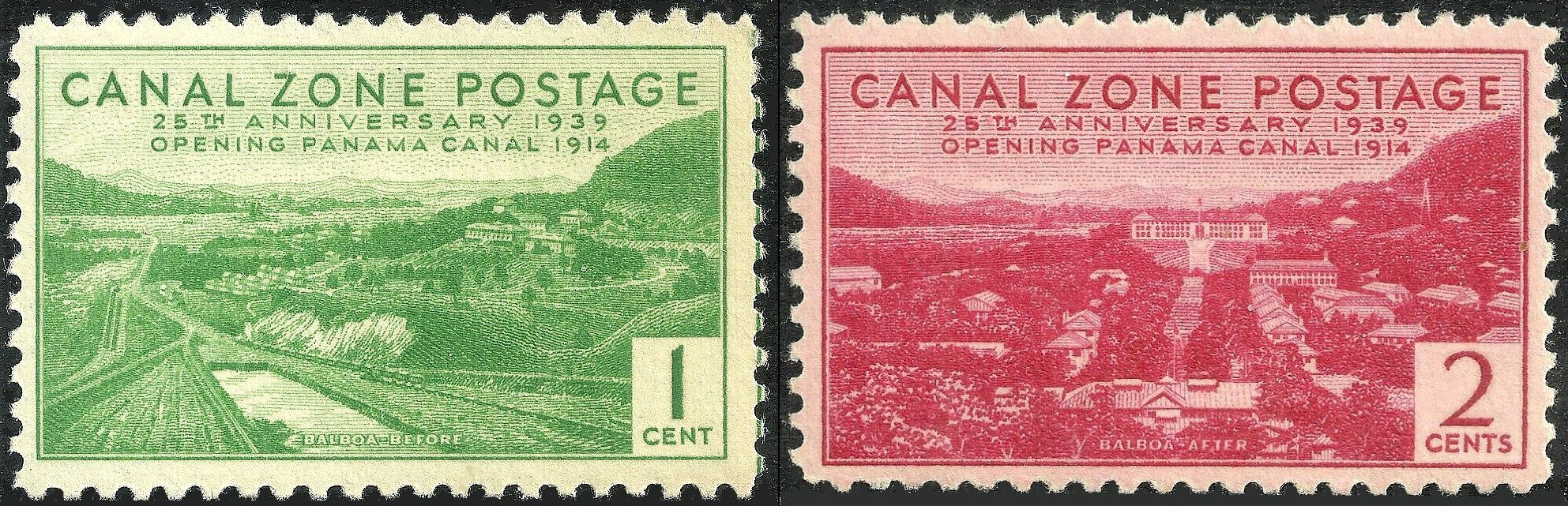 Canal Zone, 1939, 1c and 2c Issues Composite photo by Gwillhickers Images obtained from eBay : 1-cent : eBay item 253608272324 2-cent : eBay item 253608272290